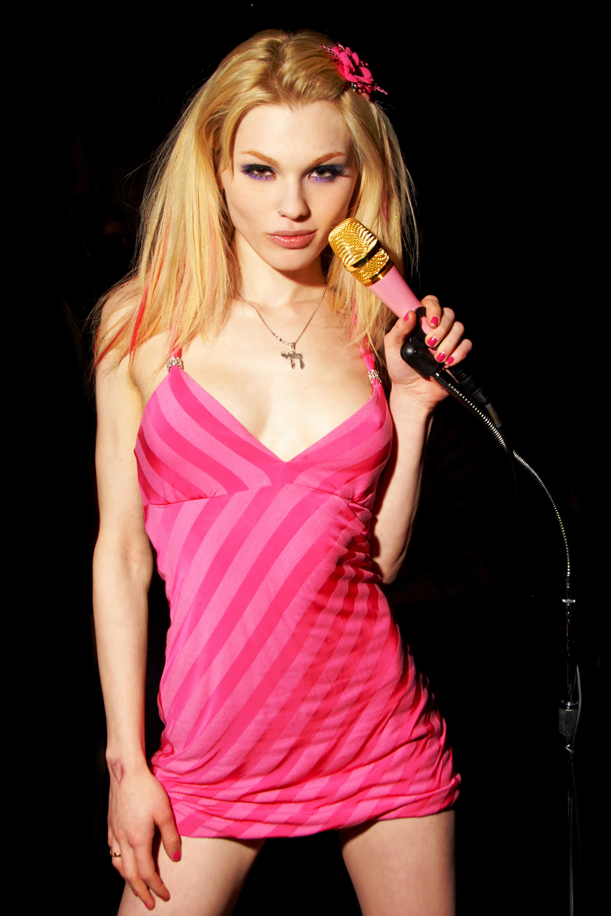 Jayme Langford, Les Deux, Hollywood, CA on March 26, 2010 - Photo by Glenn Francis of